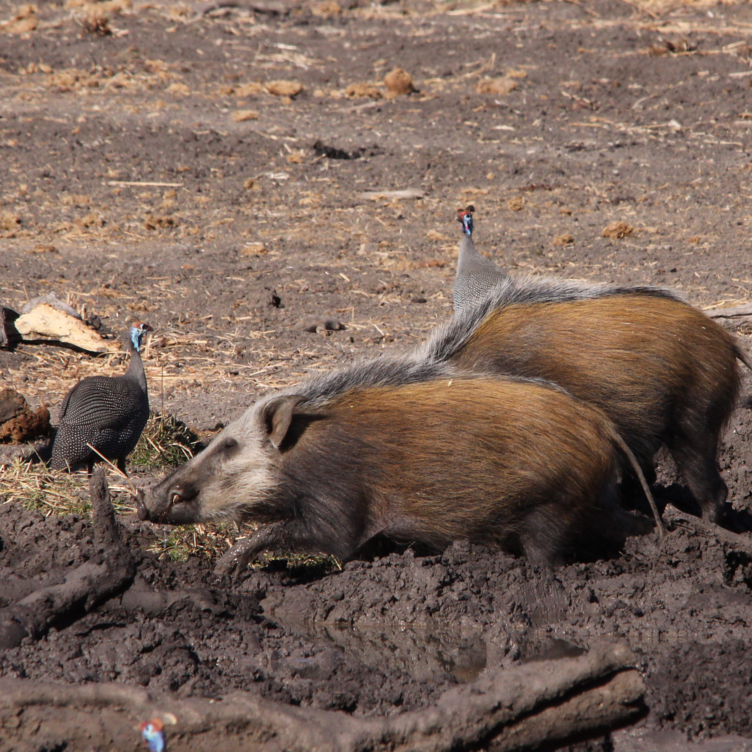 African bush pigs, Mapungubwe National Park